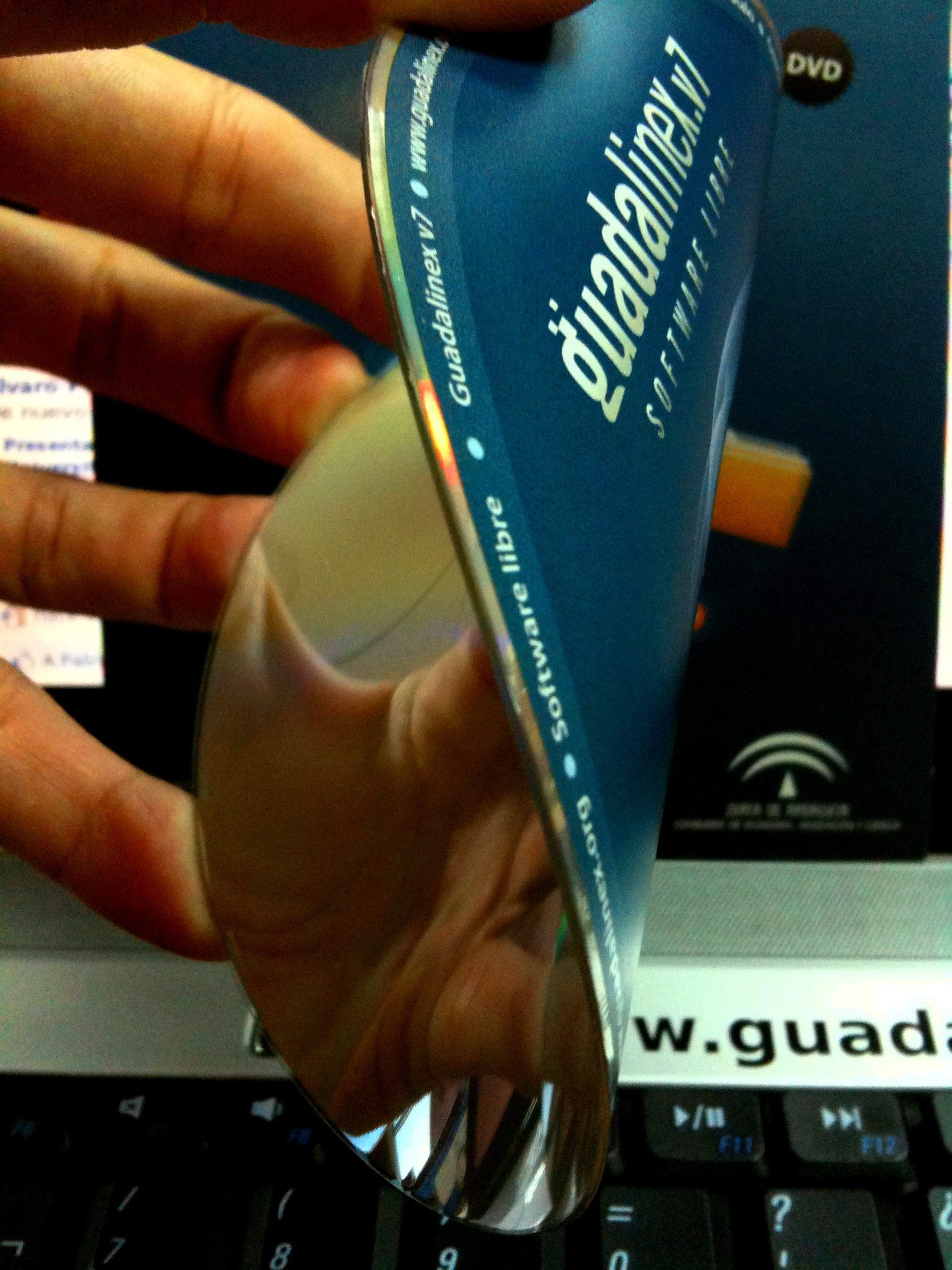 Flexibilidad de Guadalinex